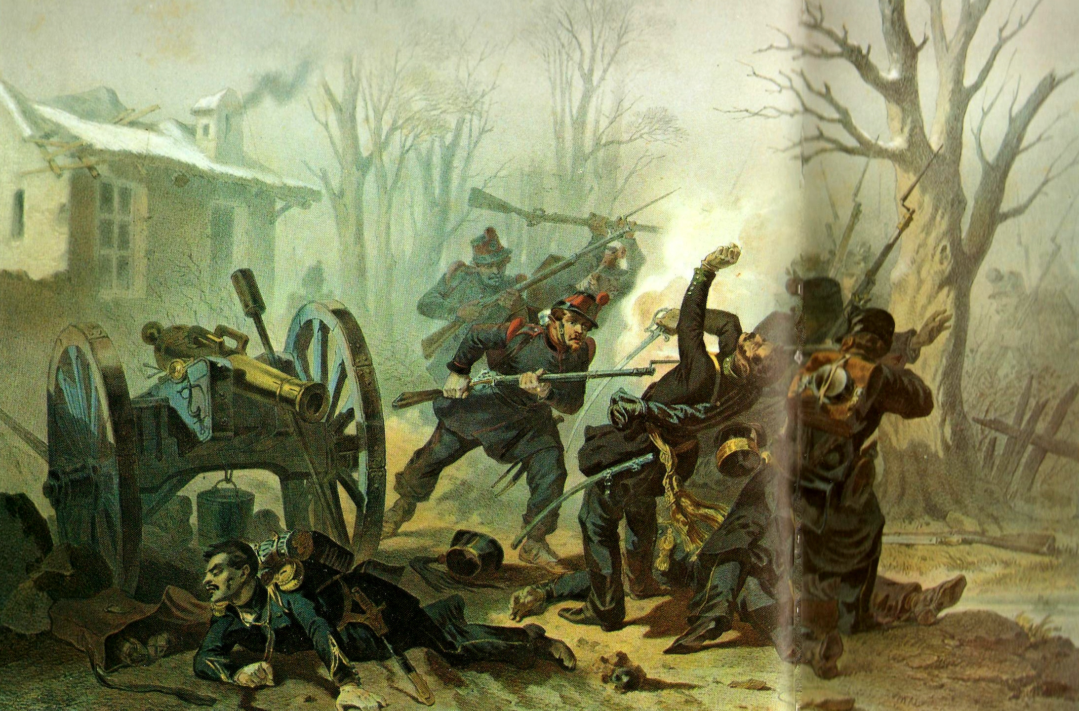 Engagement during the battle of Novara (1849)